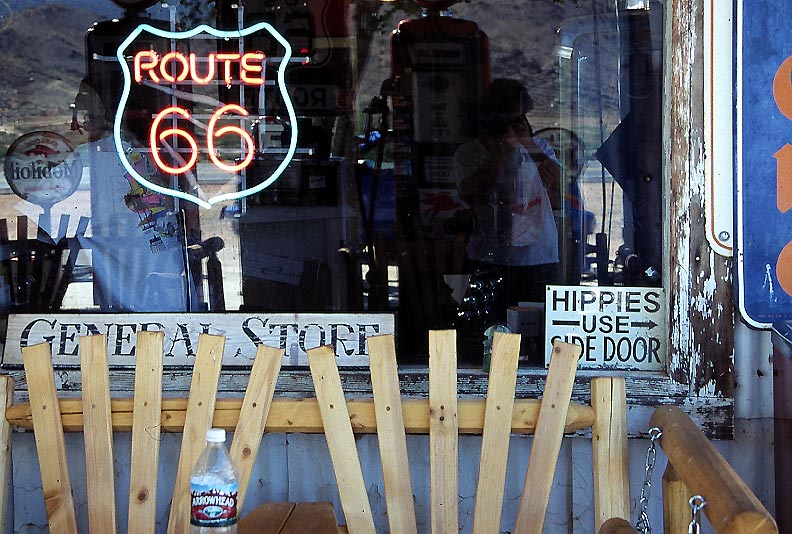 More Hackberry General Store.